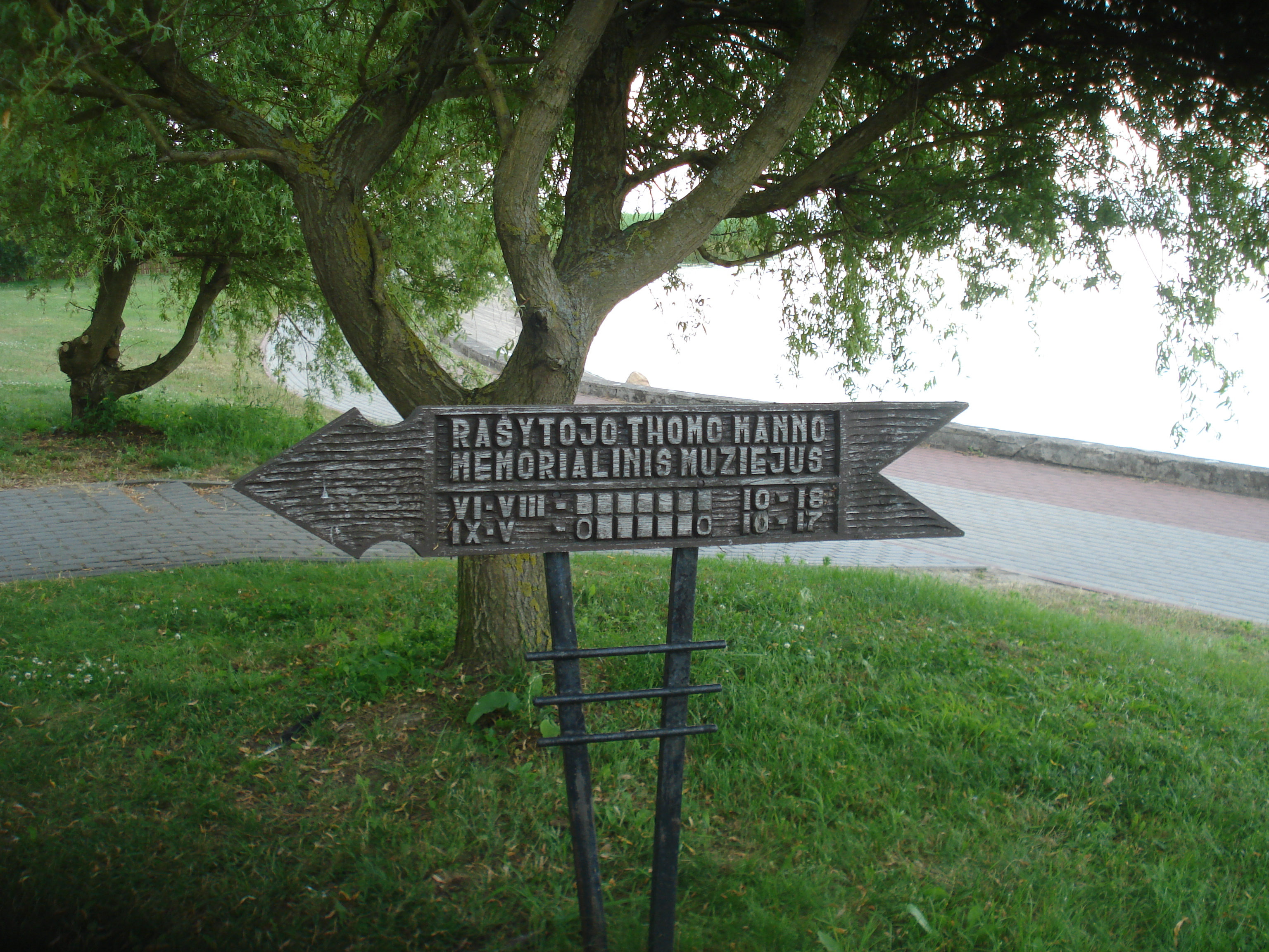 Thomas Mann museum in Nida, Skruzdynės street 17 (Lithuania). Guide sign